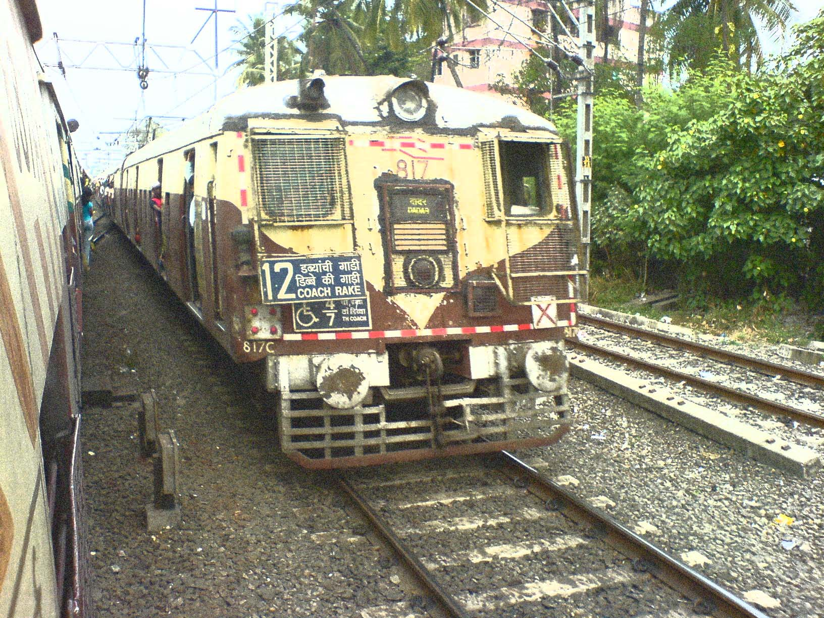 The Rush